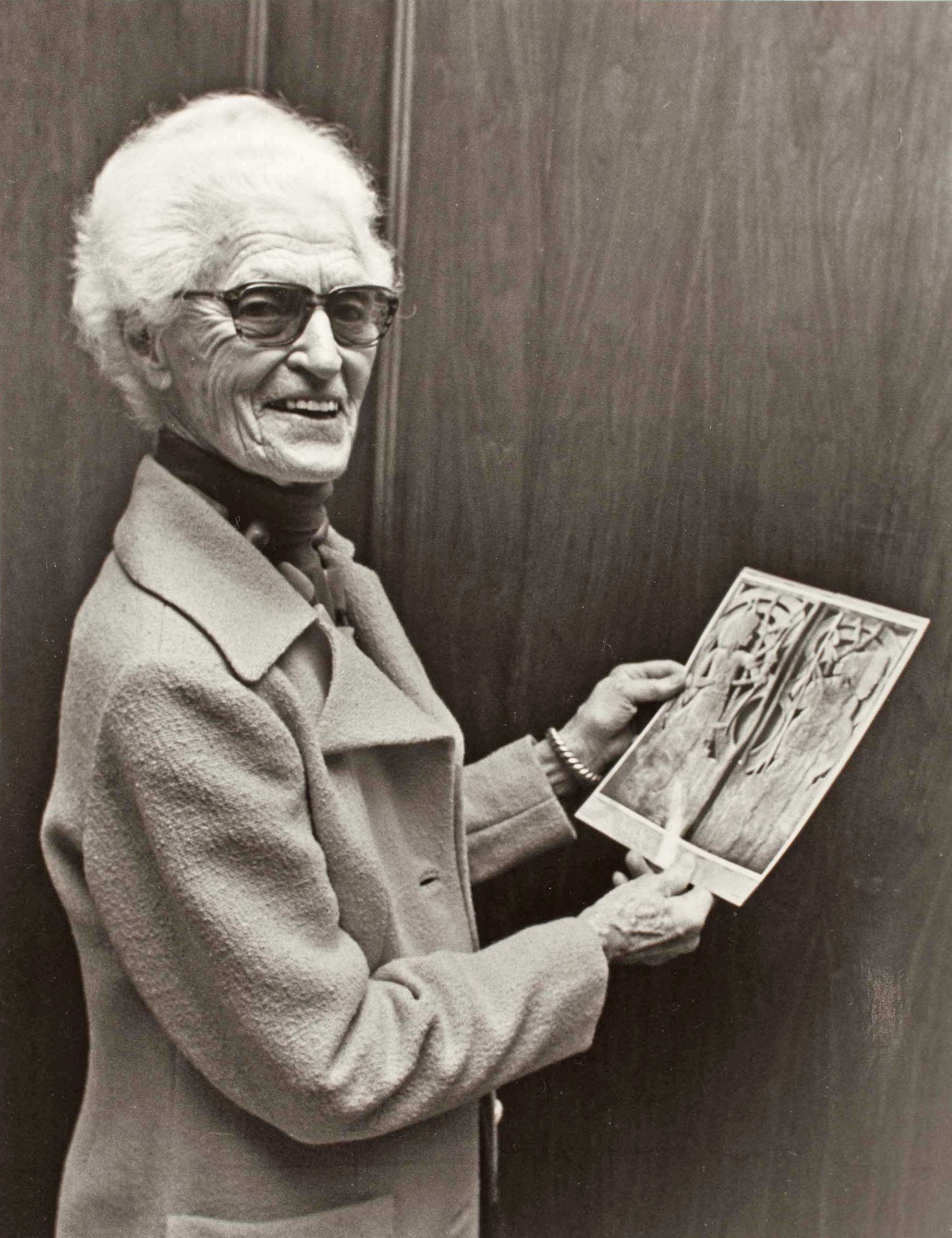 Artist Mary Abbott carved a pair of teak doors that grace the 3rd floor of the Department of Interior building in Washington, DC.